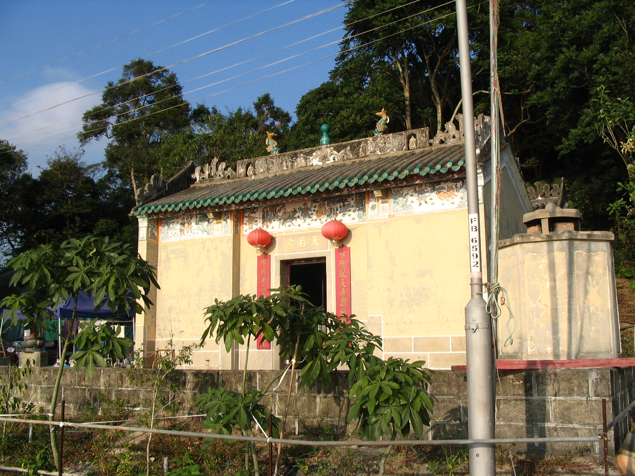 Photo of Pui O Tin Hau Temple